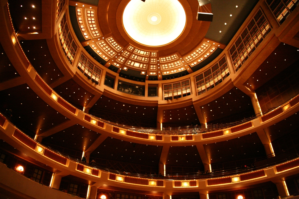 Eugene McDermott Concert Hall, Balconies, Morton H. Meyerson Symphony Center